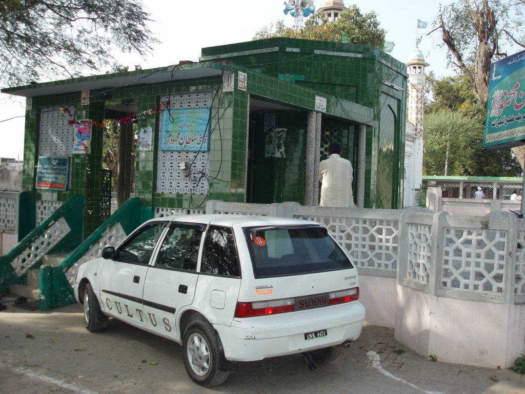 Tomb of Qazi Sultan Mahmood(R) Awan Sharif